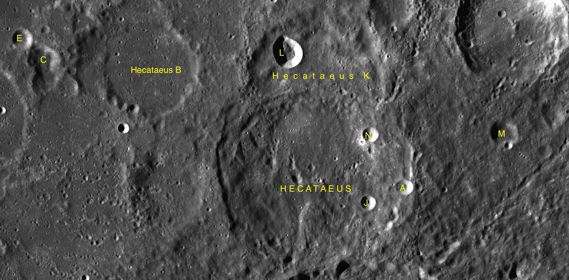 Part of the chart LAC-99 used for the presentation